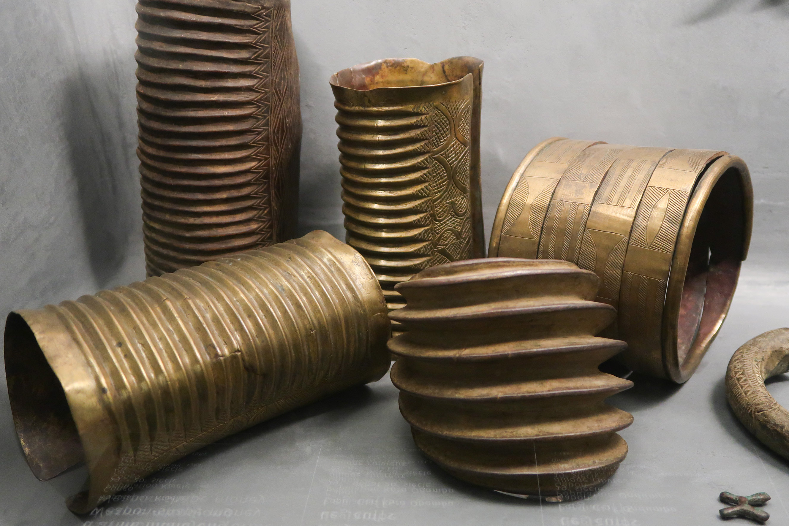 Foreground: Obamba leg cuffs, background Ondumbo (Ndumu) leg cuffs and bracelet. Gabon. 19th century. Copper alloys. Foreground: Gift Abbot André Even. Inv. 71.1935.80.123 - 71.1935.80.121.1 ; background: Gift Attilio Pecile and Jacques Savorgna de Brazza. : Inv. 71.1889.131.8.1.2 , 71.1889.131.48 et 71.1889.131.48.